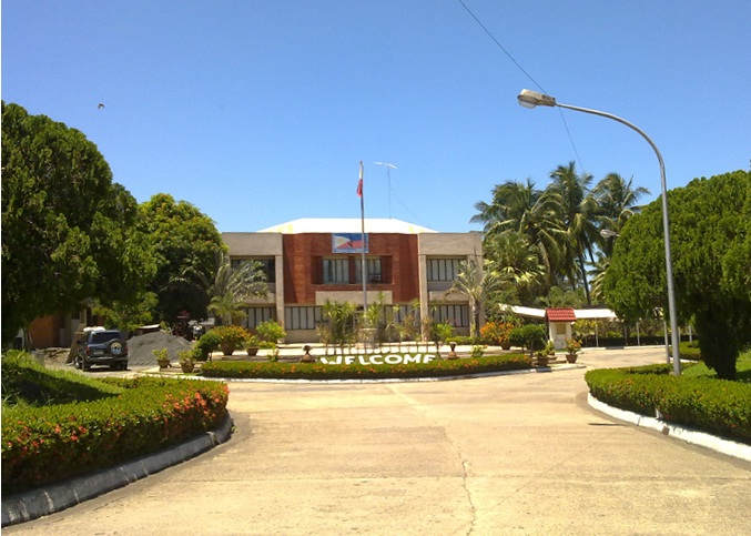 This photo shows the administration building of the Philippine Science High School Southern Mindanao Campus as seen from the main entrance of the school.